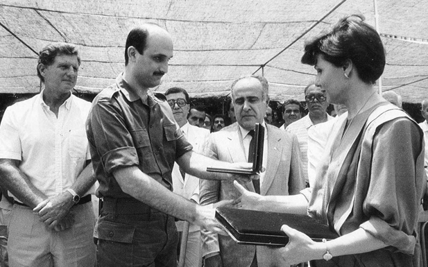 Samir Farid Geagea and Leila Hawi Zod